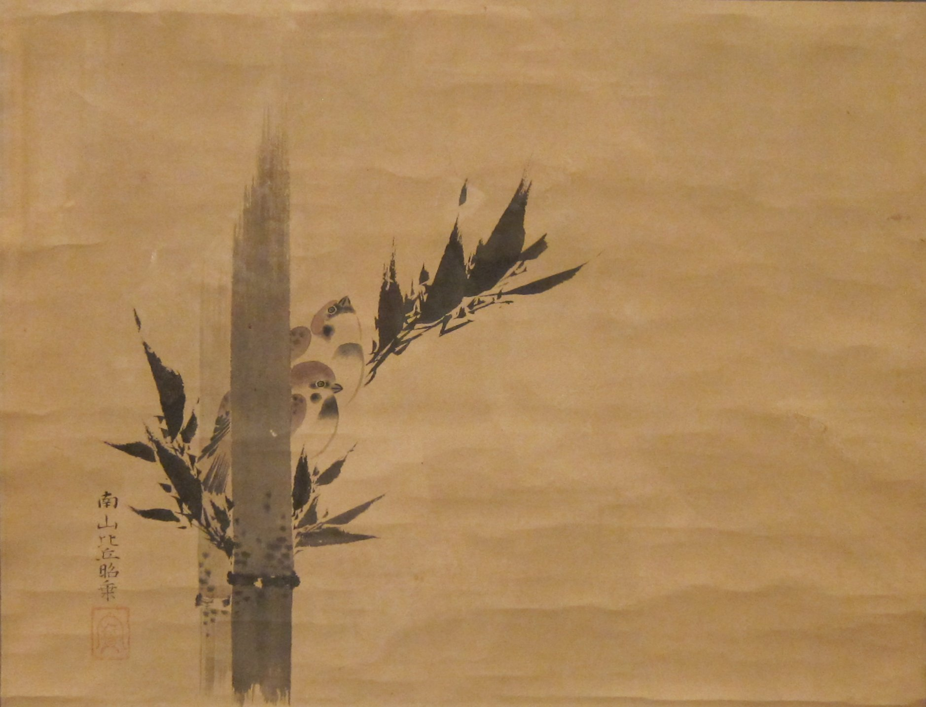 Bamboo and Sparrows by Shōkadō Shōjō, ink and light color on paper, early 17th century, Honolulu Academy of Arts